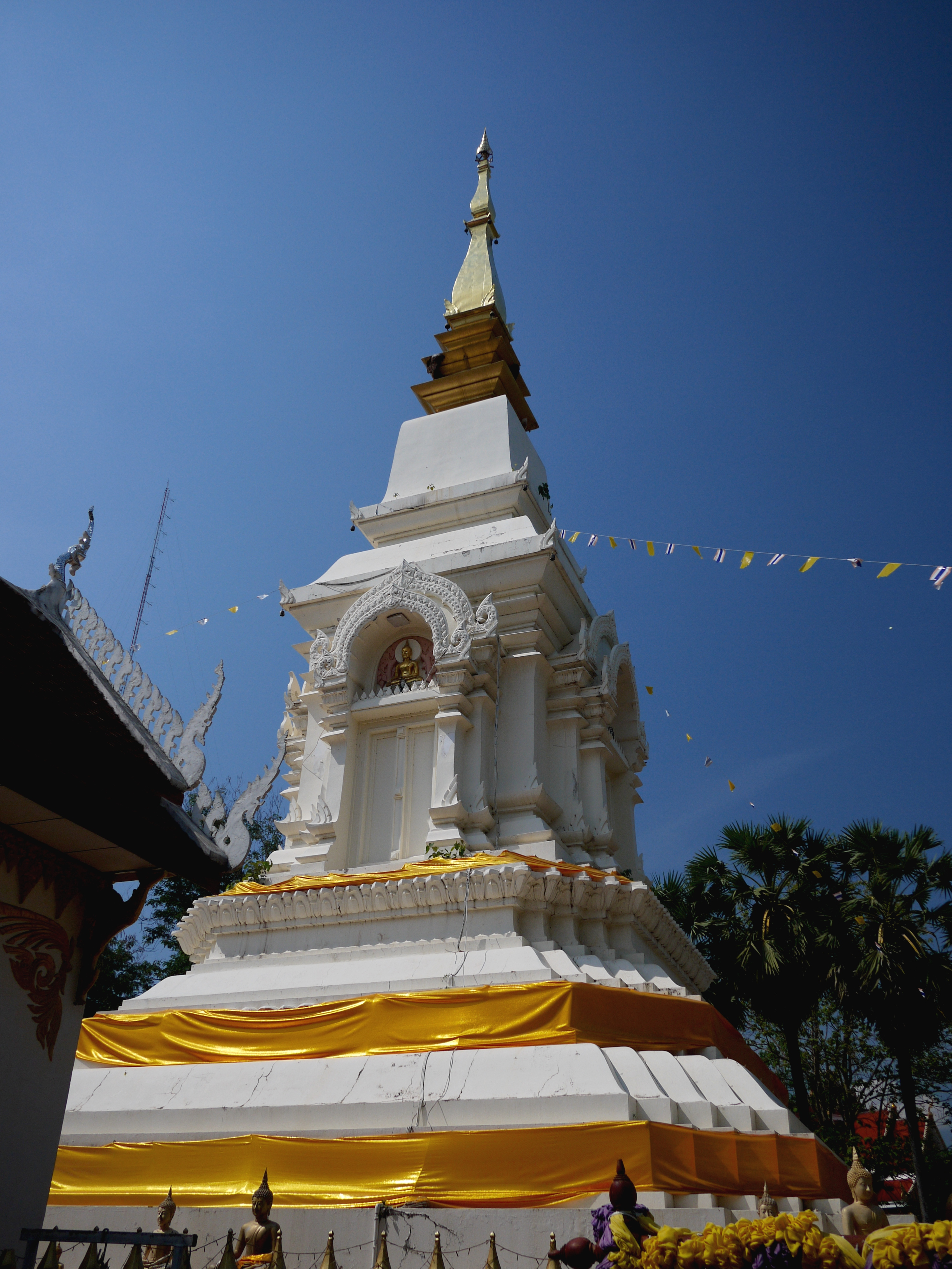 ธาตุบังพวน